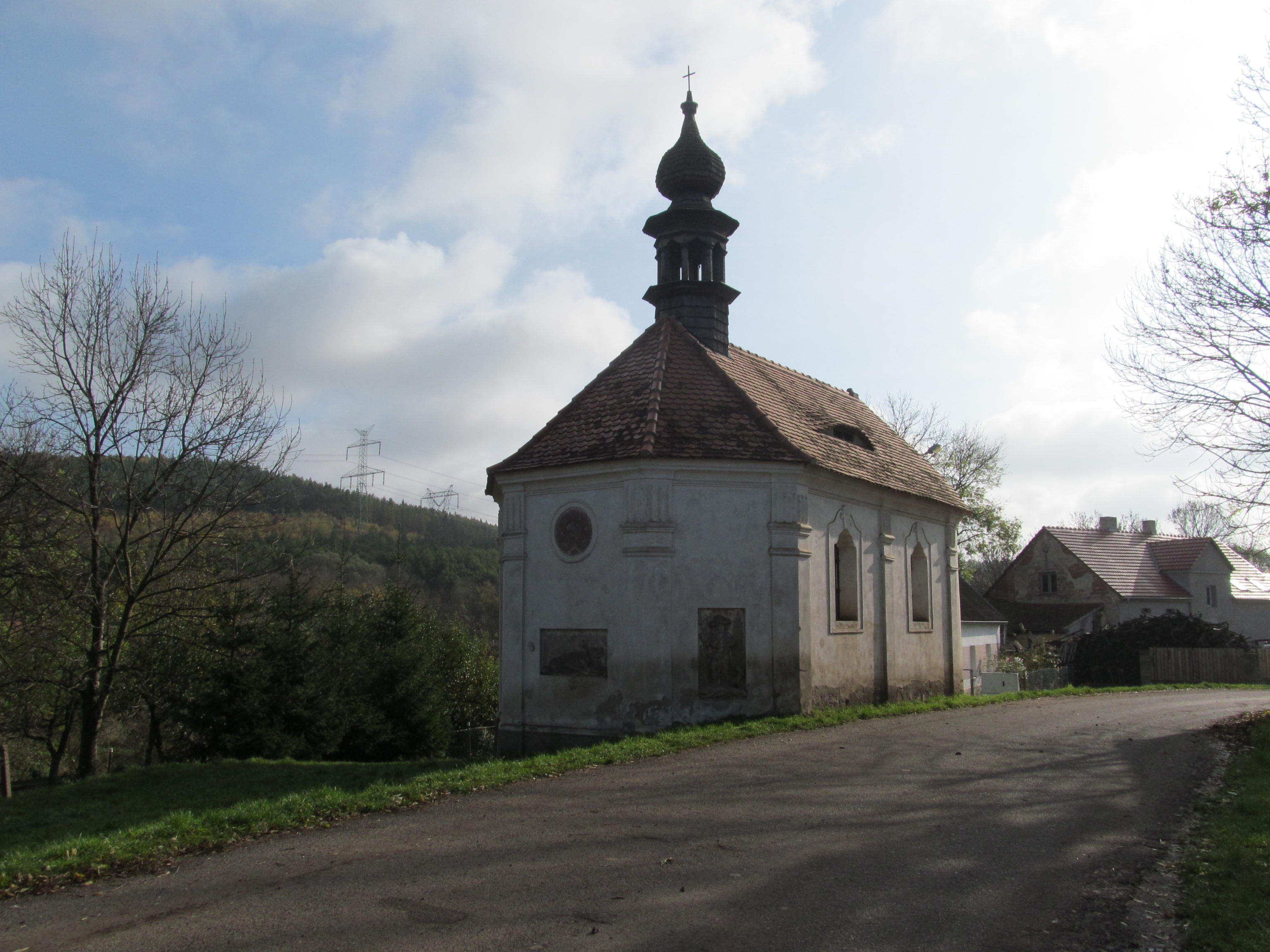 Chapel of Saints John and Paul from the end of 18th century in Oploty